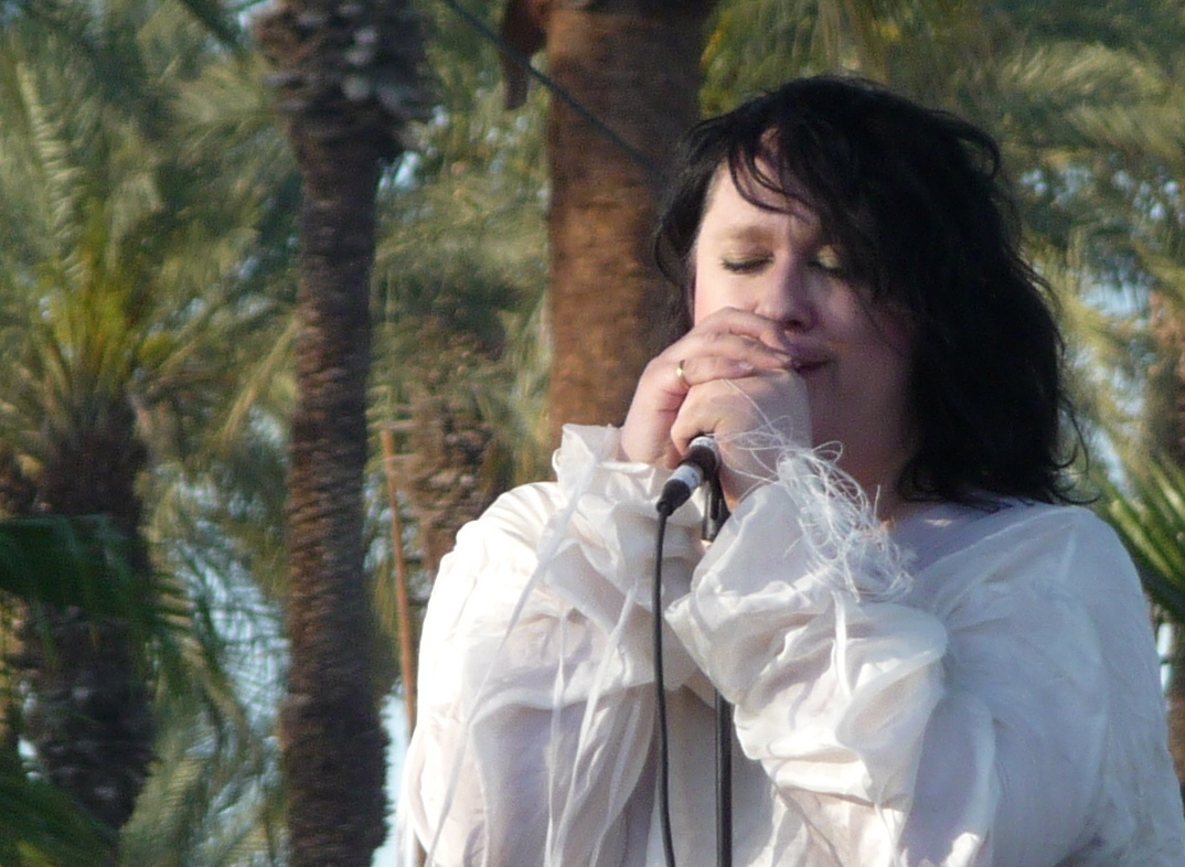 Antony and the Johnsons giving a concert at the Coachella Valley Music and Arts Festival in 2009.